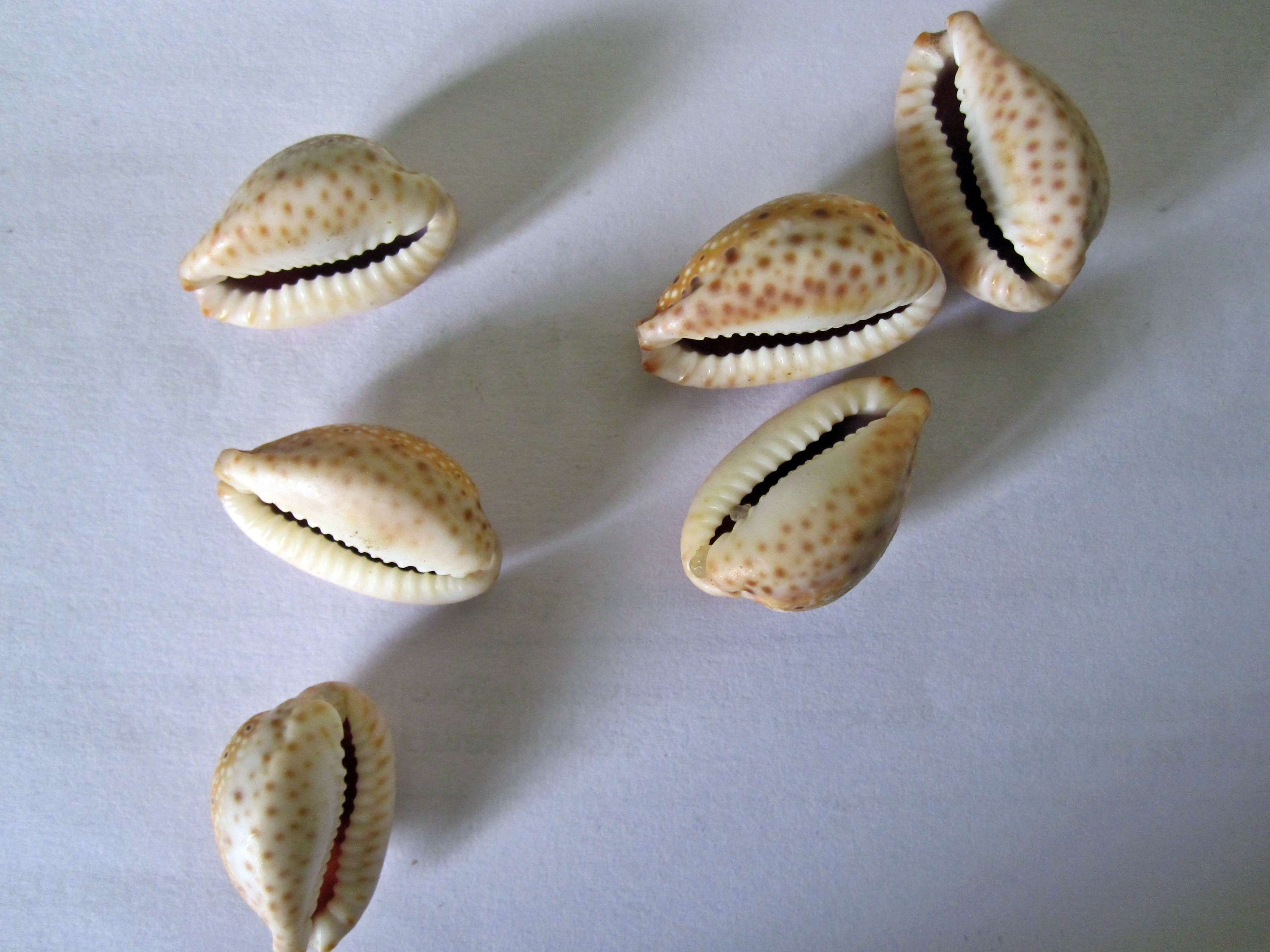 cowry shells used as dice for games of chance in Tamil culture (சோழி/சோவி). This indicates a roll of 12